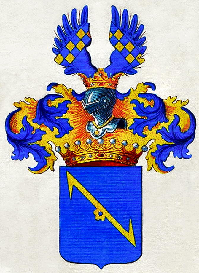 Coat of Arms of Count of Gilleis 1699